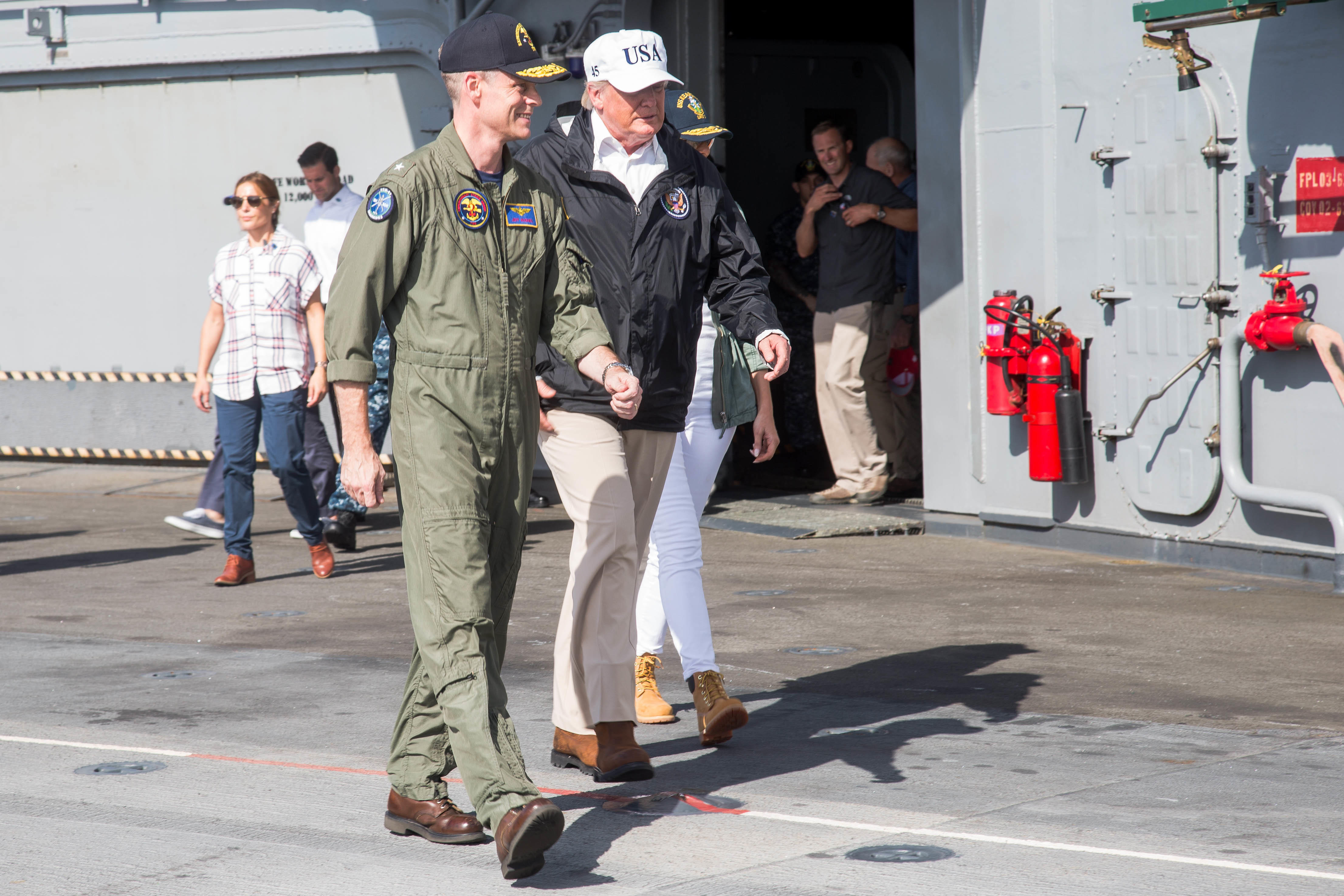 U.S. Navy Rear Adm. Jeff Hughes, left, commander, Expeditionary Strike Group 2, amphibious assault ship USS Kearsarge (LHD 3), and President Donald J. Trump, prepare to shake hands with Marines and Sailors during the president’s visit aboard the amphibious assault ship USS Kearsarge (LHD 3), Caribbean Sea, Oct. 3, 2017. During the visit, President Trump and the First Lady Melania Trump, interacted with Marines and Sailors who are supporting Hurricane Maria relief efforts. (U.S. Marine Corps photo by Lance Cpl. Alexis C. Schneider)